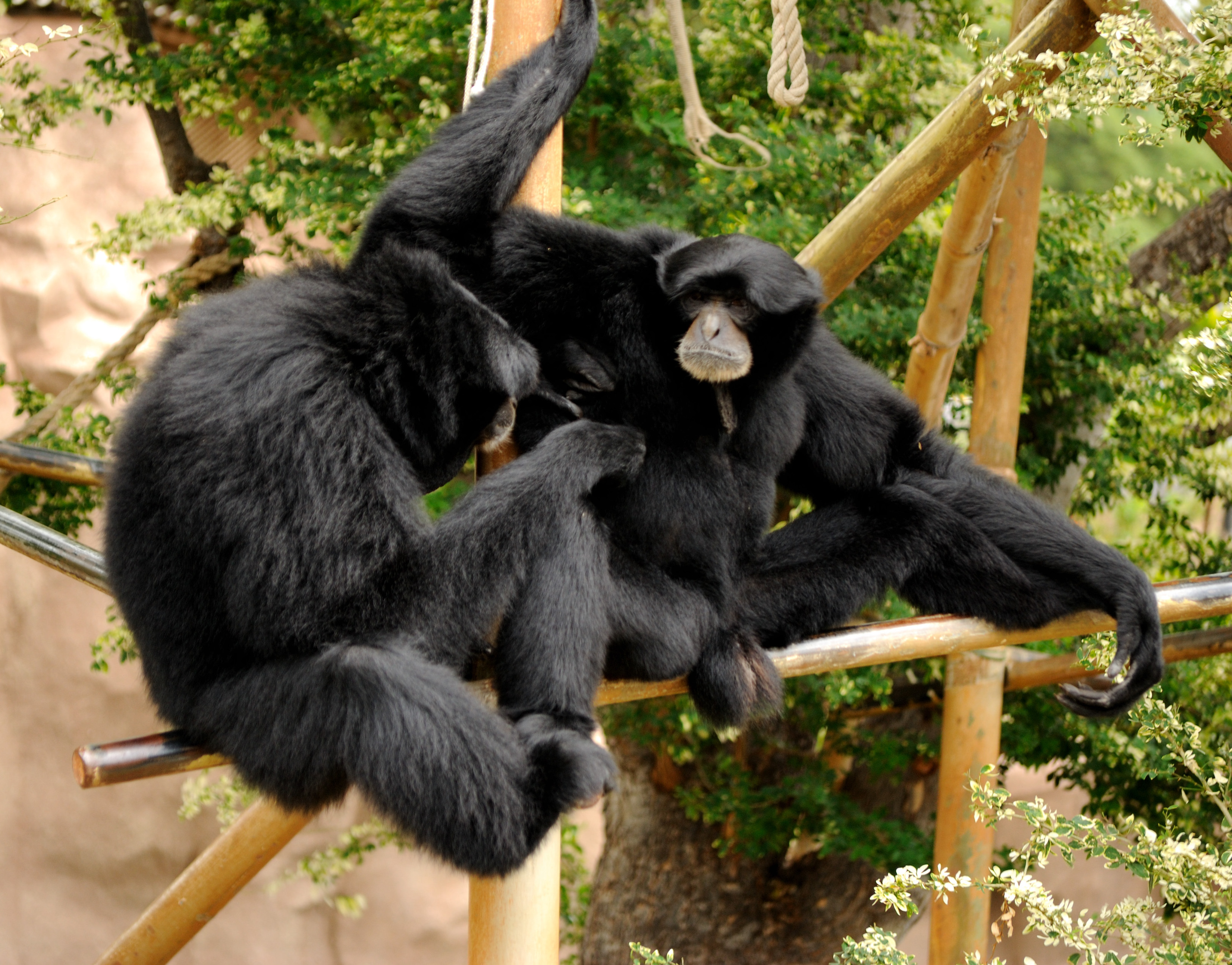 Pair of Siamangs